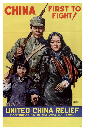 United China Relief poster